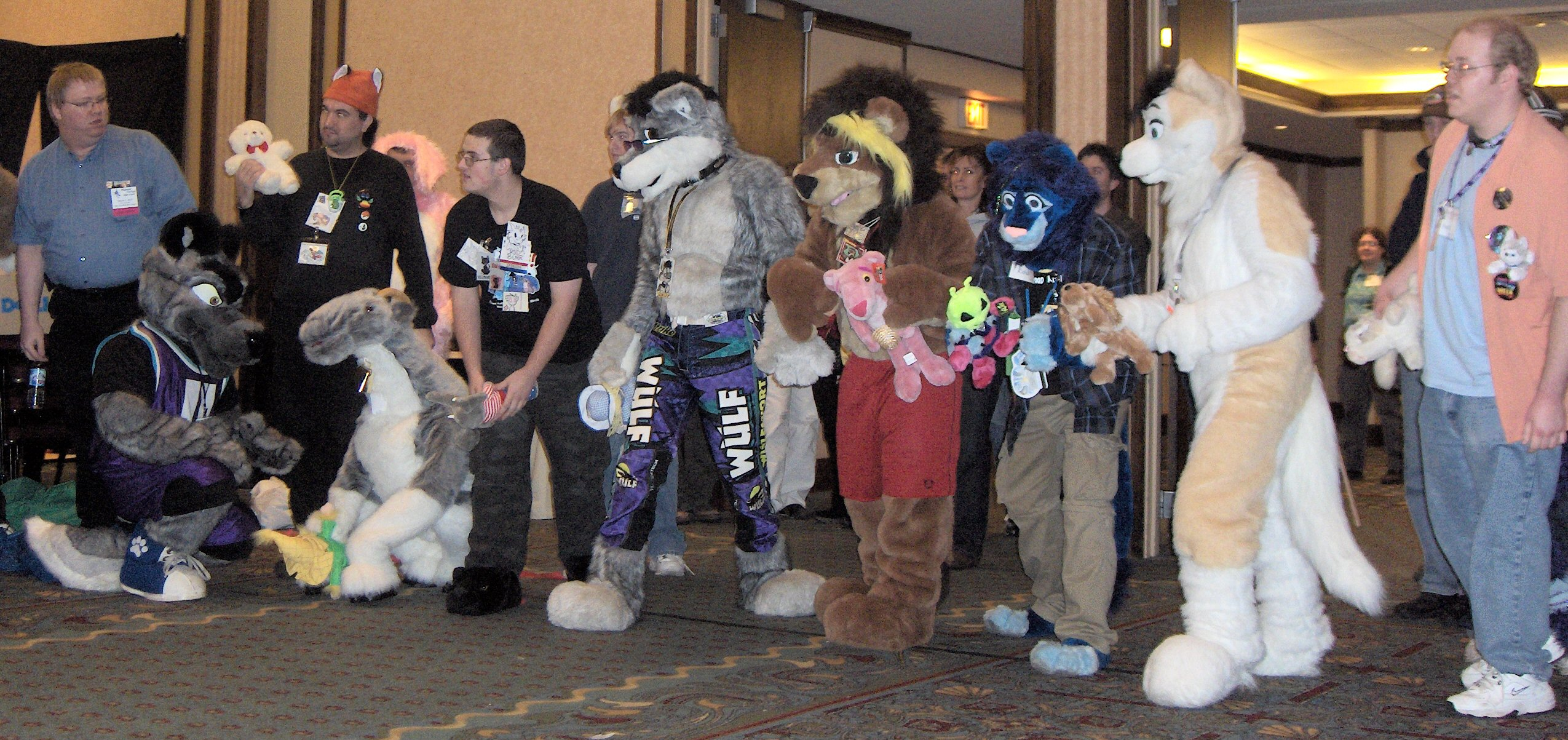 Furry games at Midwest FurFest 2006, a popular furry convention